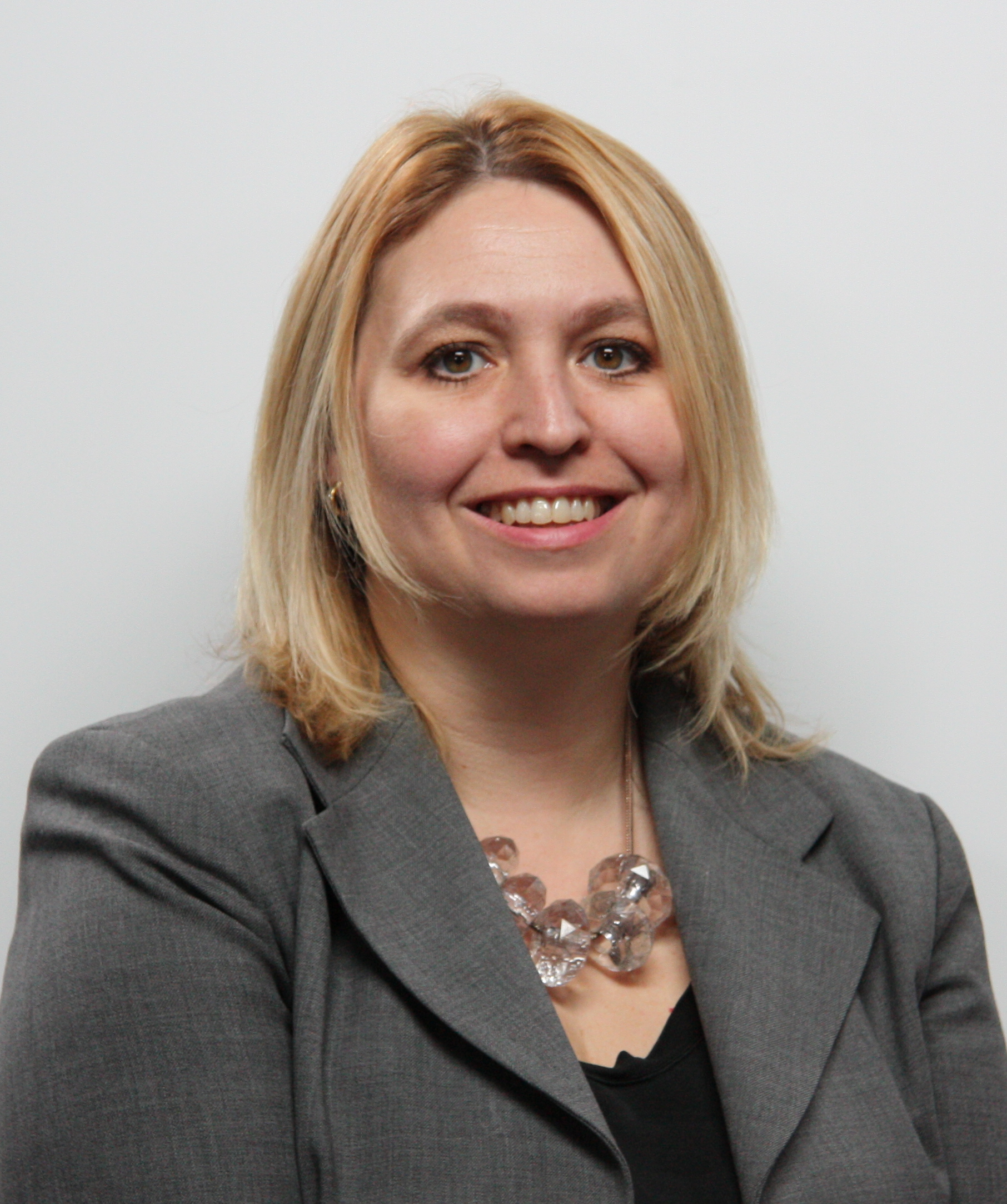 Parliamentary Under Secretary of State (Minister for Preventing Abuse and Exploitation) Karen Bradley is a minister in the Home Office. She was born in Cheddleton in Staffordshire Moorlands and educated at Buxton Girls’ School and Imperial College London, from where she graduated with a BSc in Mathematics.